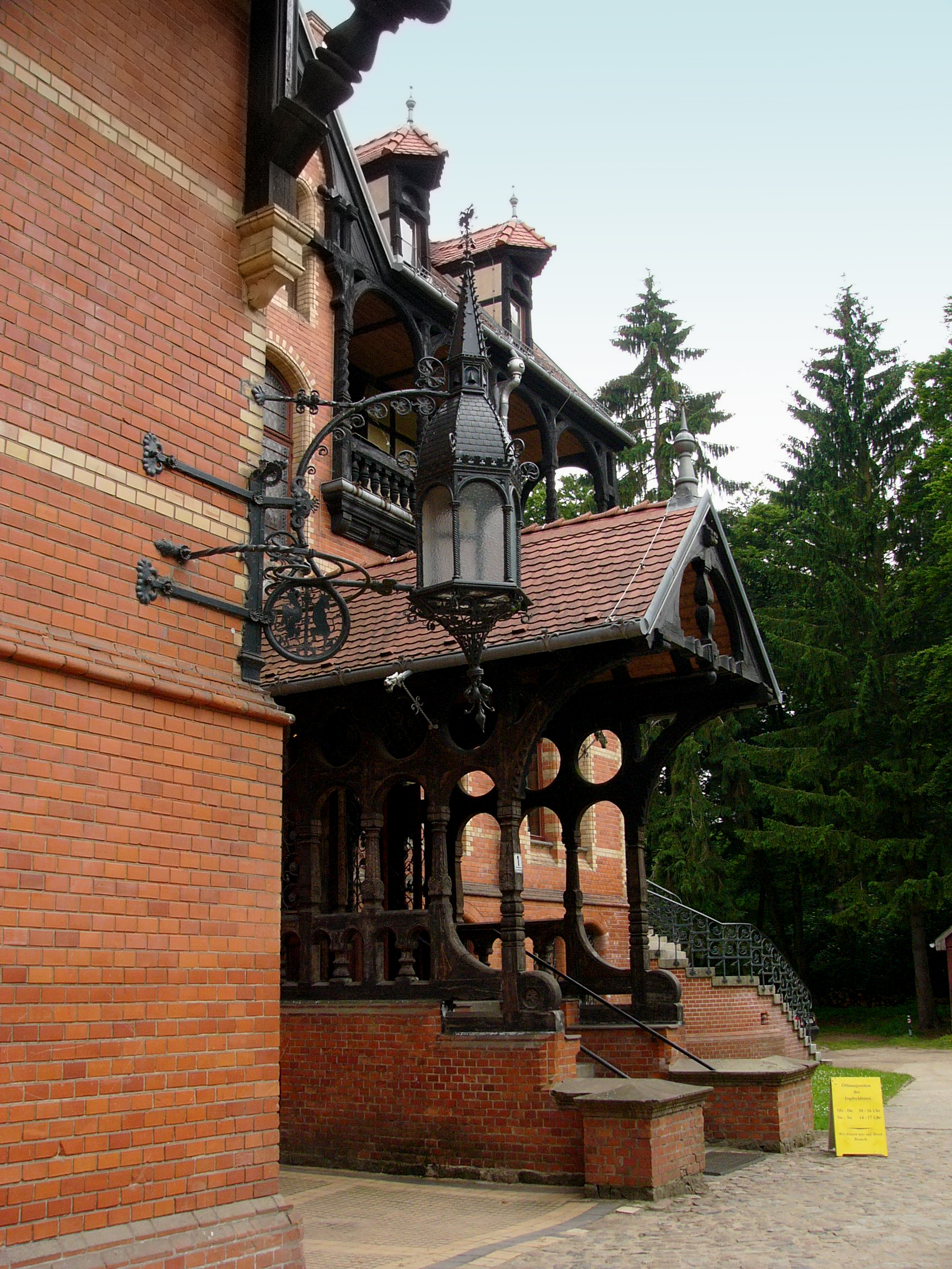 The Hunting Castle Gelbensande is located in Mecklenburg-Vorpommern in Germany.